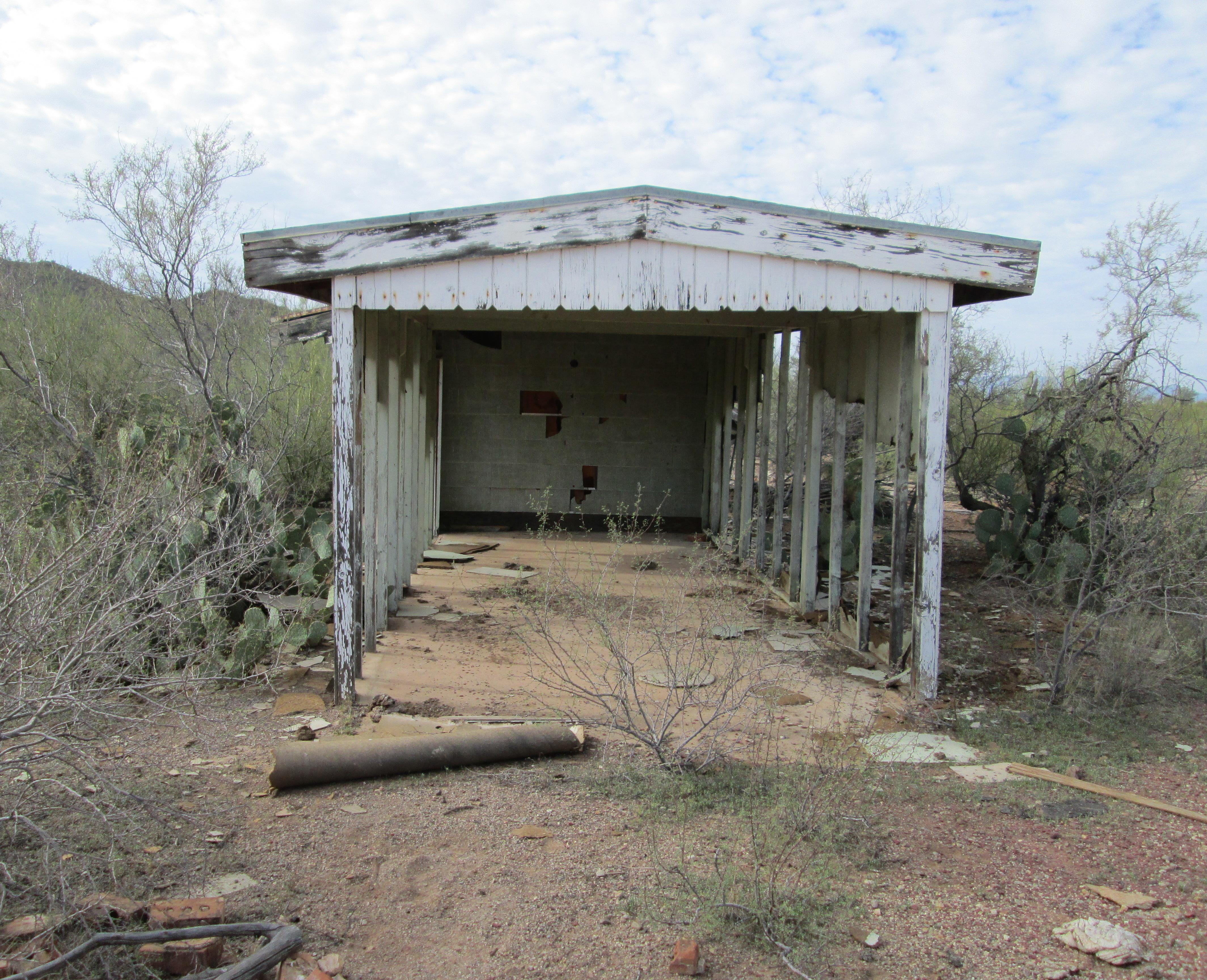 Ruins of a building at the "new" Silver Bell town site, south of Silver Bell Mine. February 22, 2014